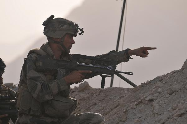 A French marine with Task Force Korrigan points out the location of guerilla after taking small arms and rocket propelled grenade fire at Combat Outpost Belda in the Shpee valley of Kapisa province, Afghanistan, 7th of August. Three Afghan National Army companies, supported by 500 French marines serving with "International Security Assistance Forces", and "Coalition" force elements, conducted a large operation intended to deny the enemy safe haven and contribute to election security in Shpee, 6 to 8th of August.